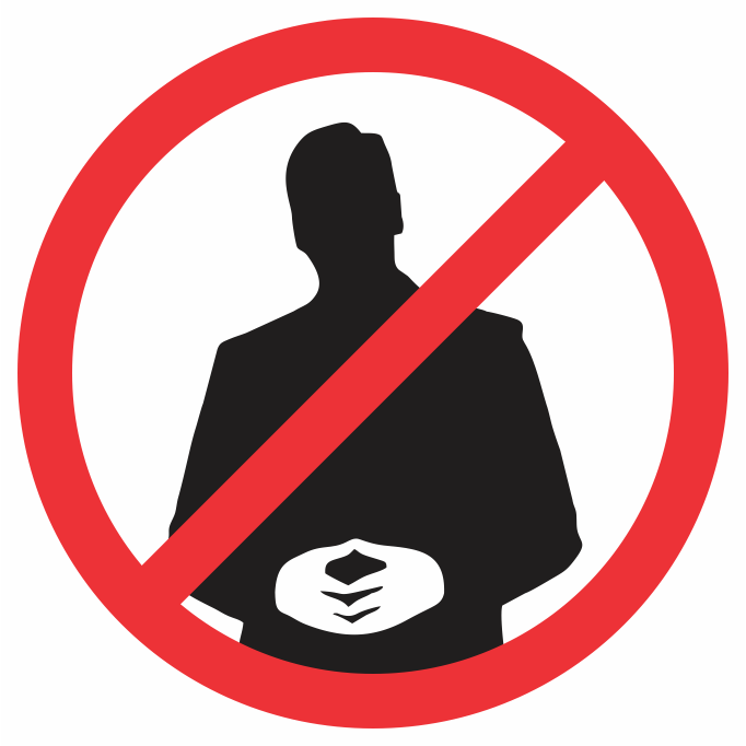 symbol of 2017 serbia protest against dictatorship